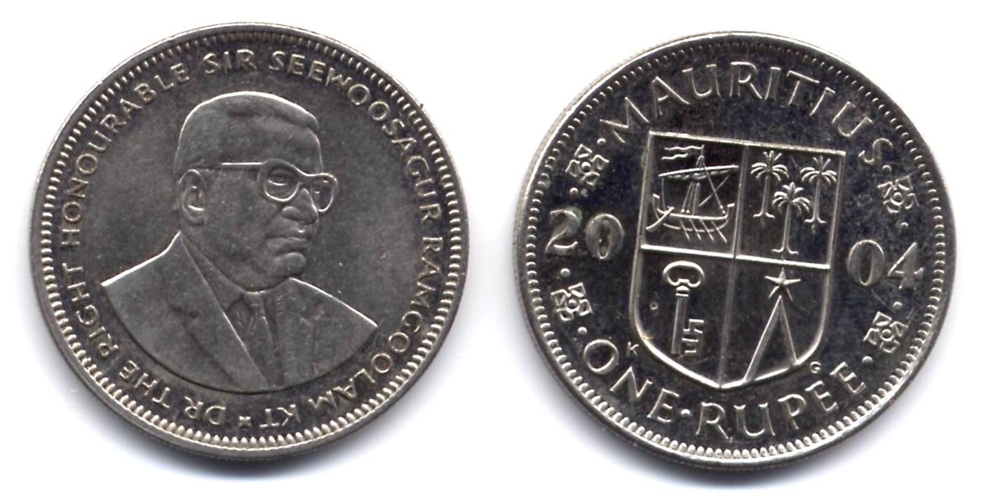 Republic of Mauritius 1 Rupee coin